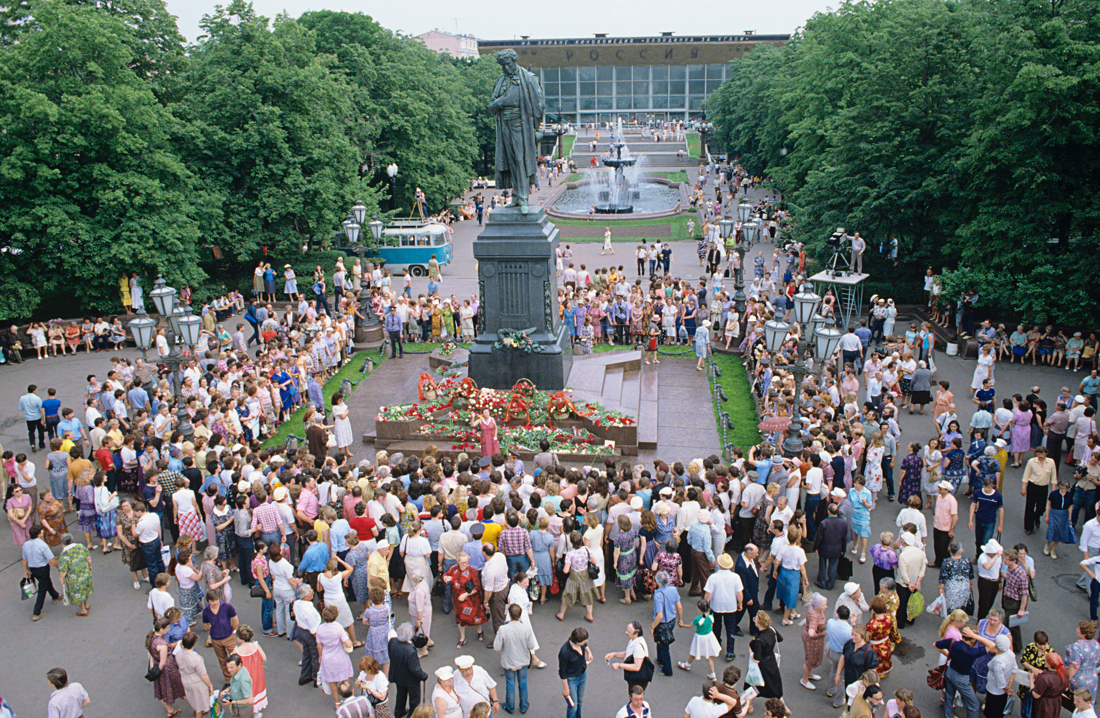 “Poetry festival near the Pushkin Monument in Moscow”. A poetry festival near the Pushkin Monument on Pushkin Square in Moscow in 1984 to mark the poet's 185 birthday.